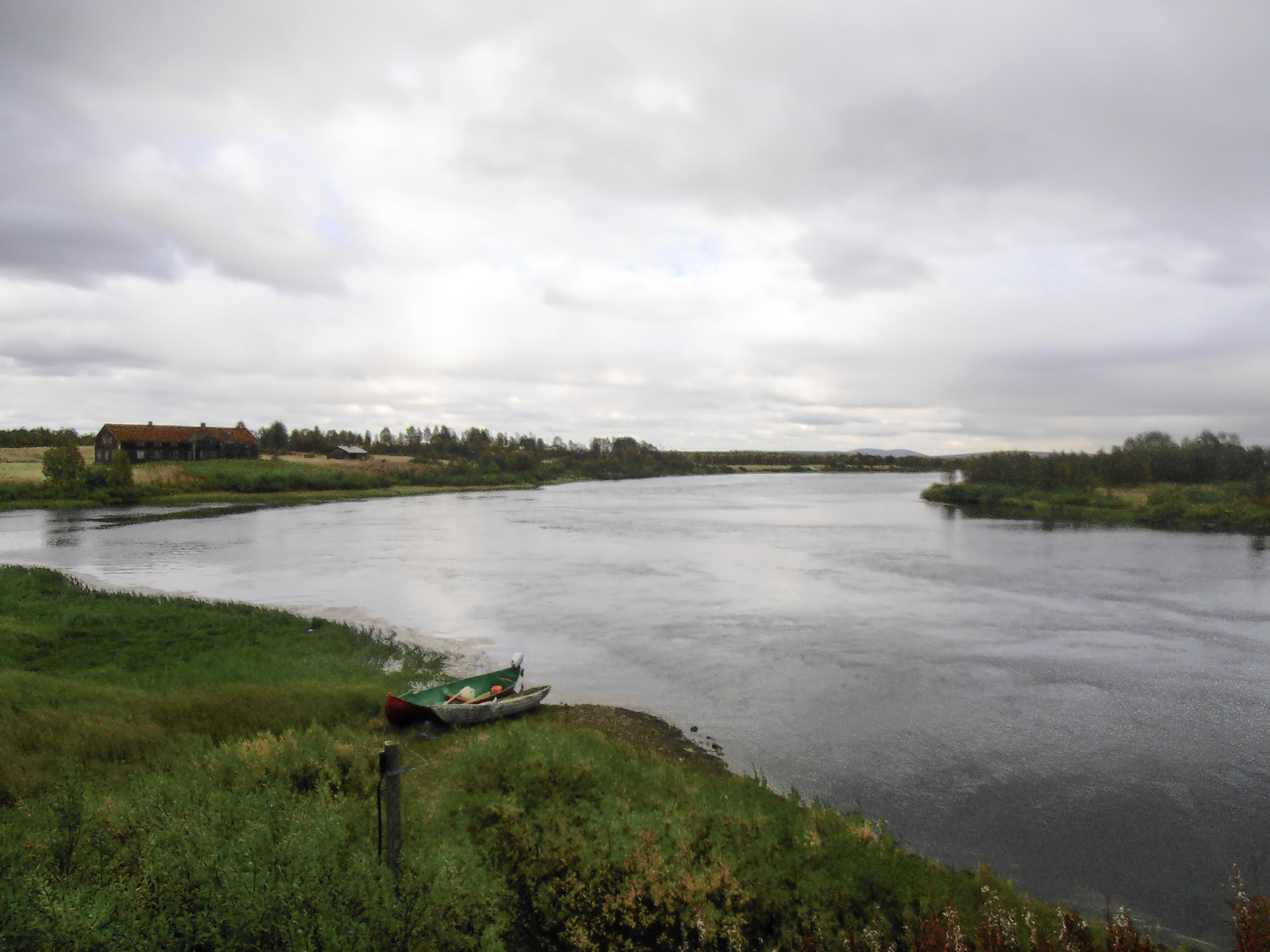 The Kaitum river, Killinki